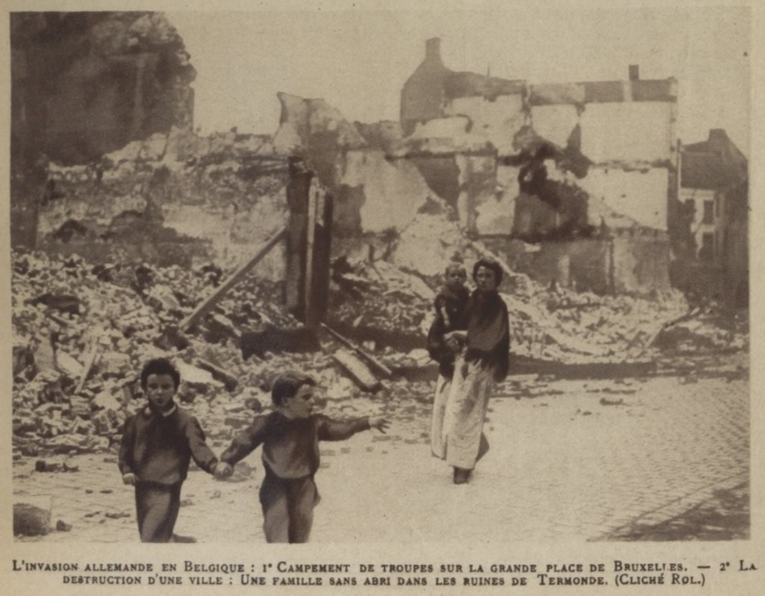 A family without shelter in the ruins of the city of Dendermonde - WW1